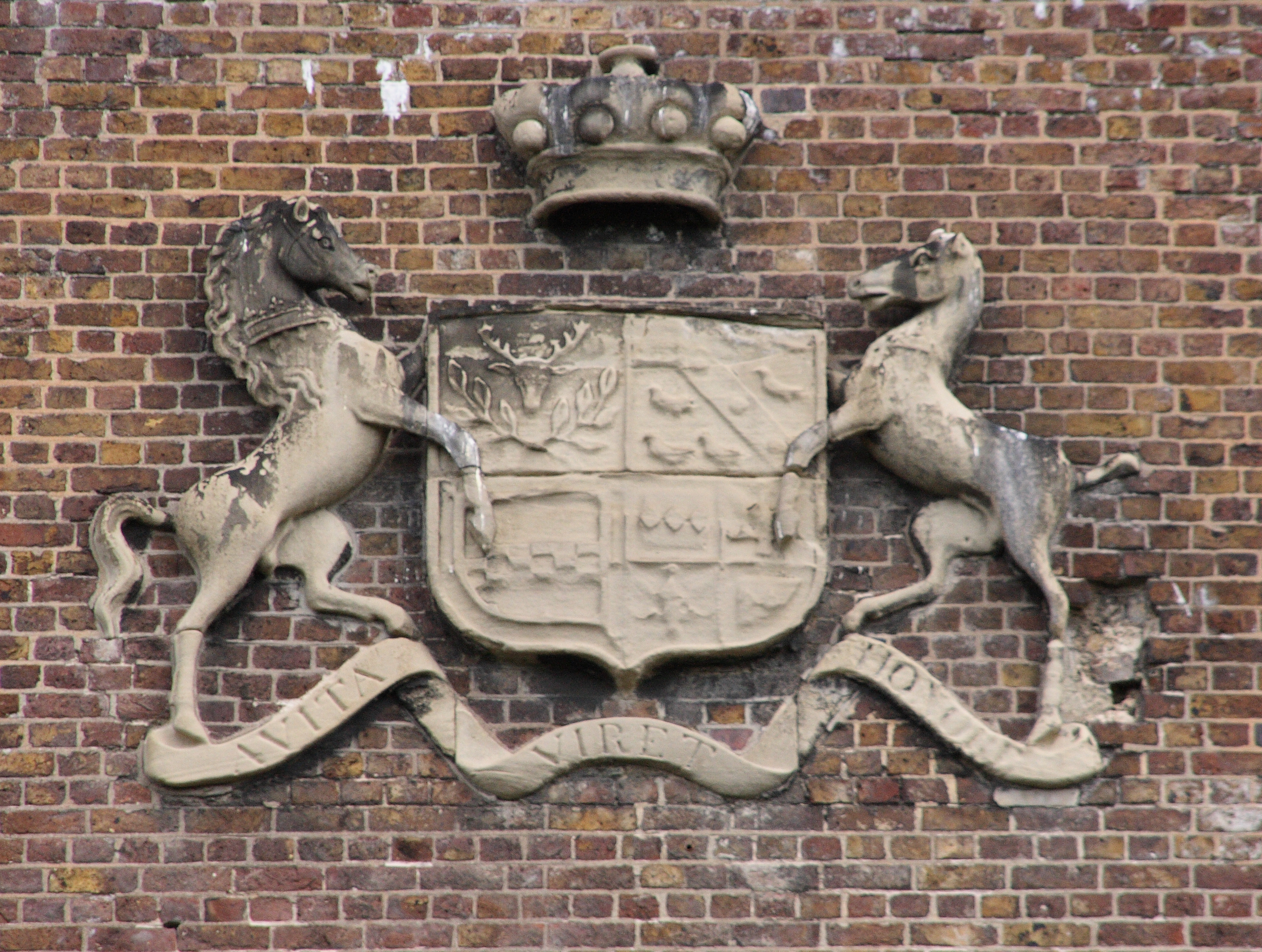 Wharncliffe coat of arms as they appear on the south side of the Wharncliffe Viaduct, Hanwell W7 London.